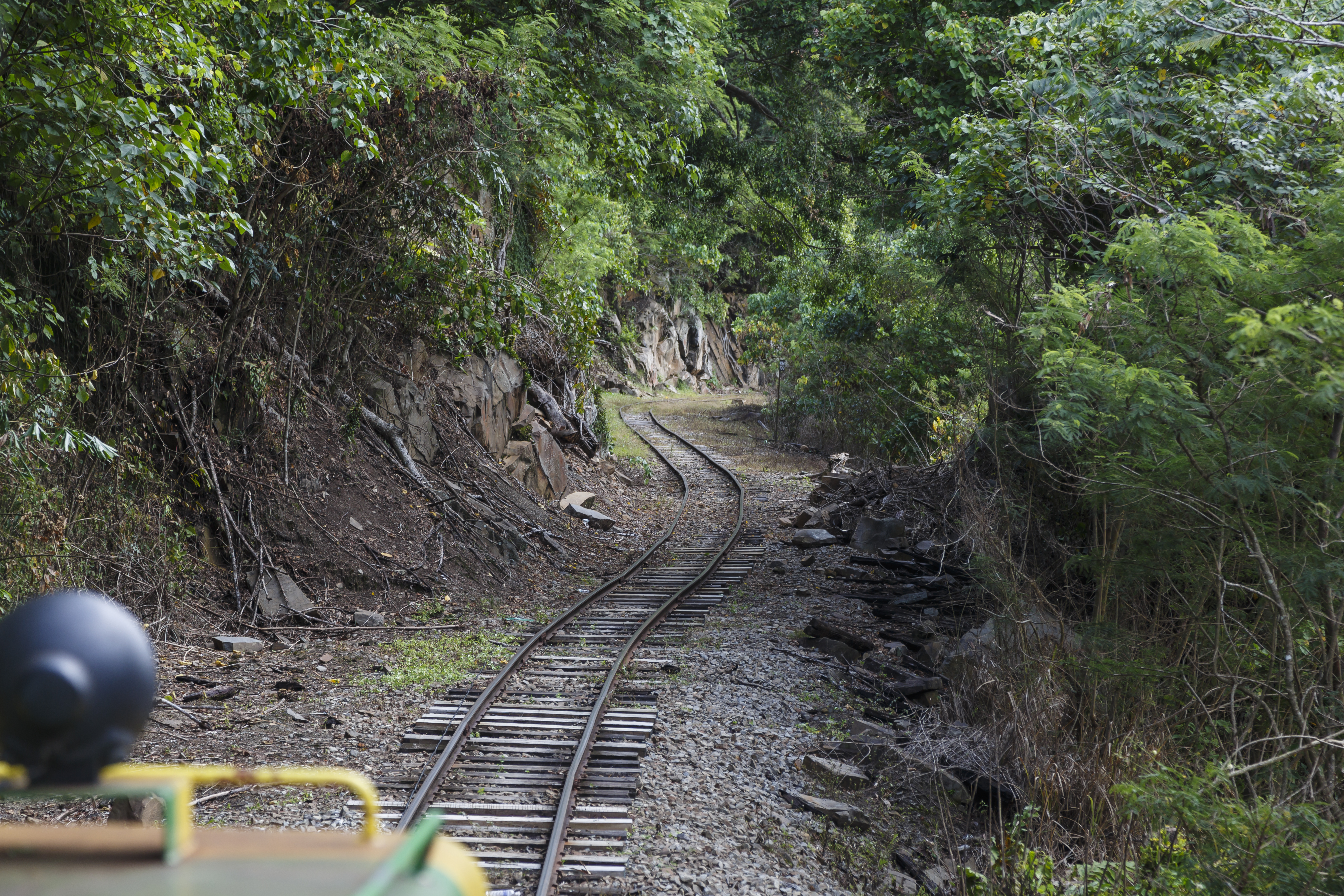 District Tenom, Sabah: The railway track alongside the Padas River